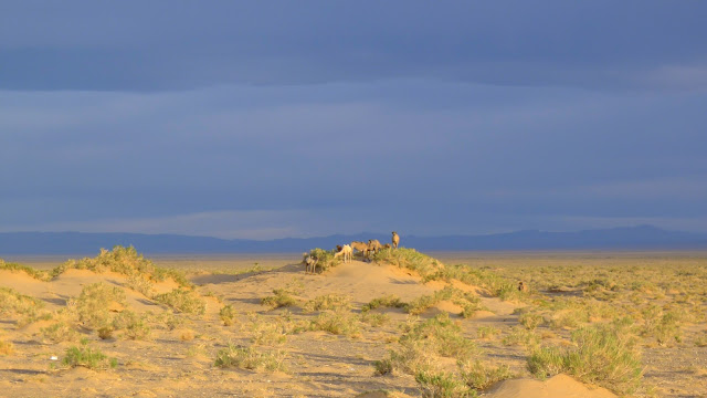 Camels in the morning sun, Sharga depression